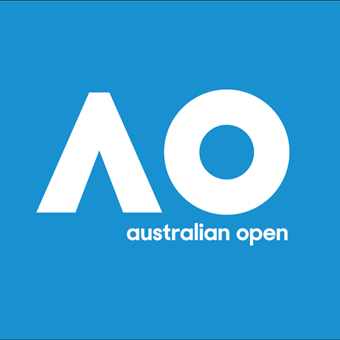 Logo of the Australian Open since 2017